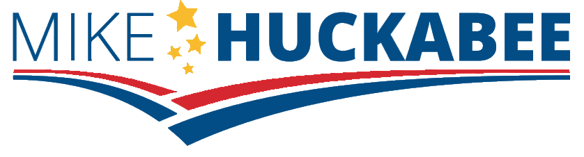 Plain version of Mike Huckabee's 2016 campaign logo. Excludes slogan. This version is used on many more campaign materials and publications.